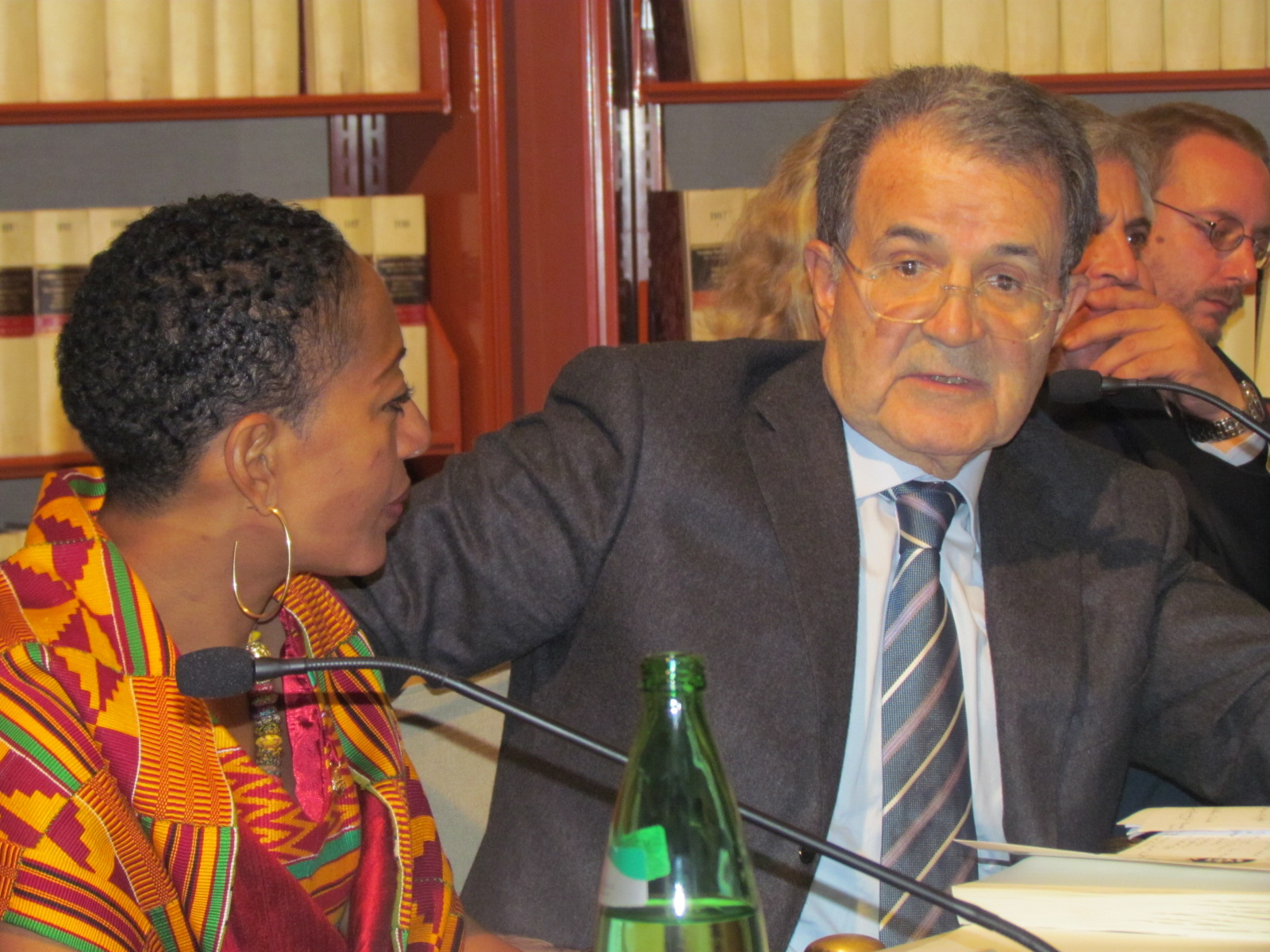 Samia Nkrumah with the 52nd Prime Minister of Italy, Romano Prodi delivering a speech to the Parliament of Italy in Rome, on 22 November 2011.